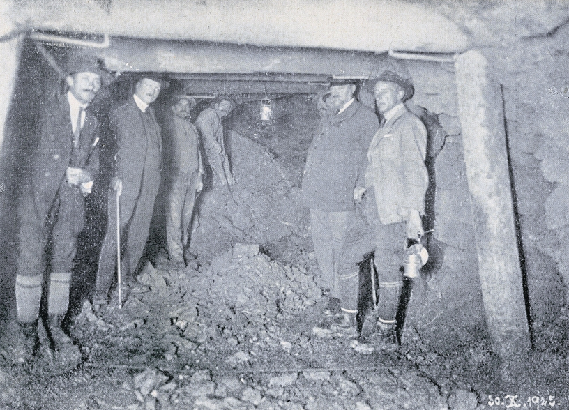 Tunnel „Teliu – Întorsura Buzăului”